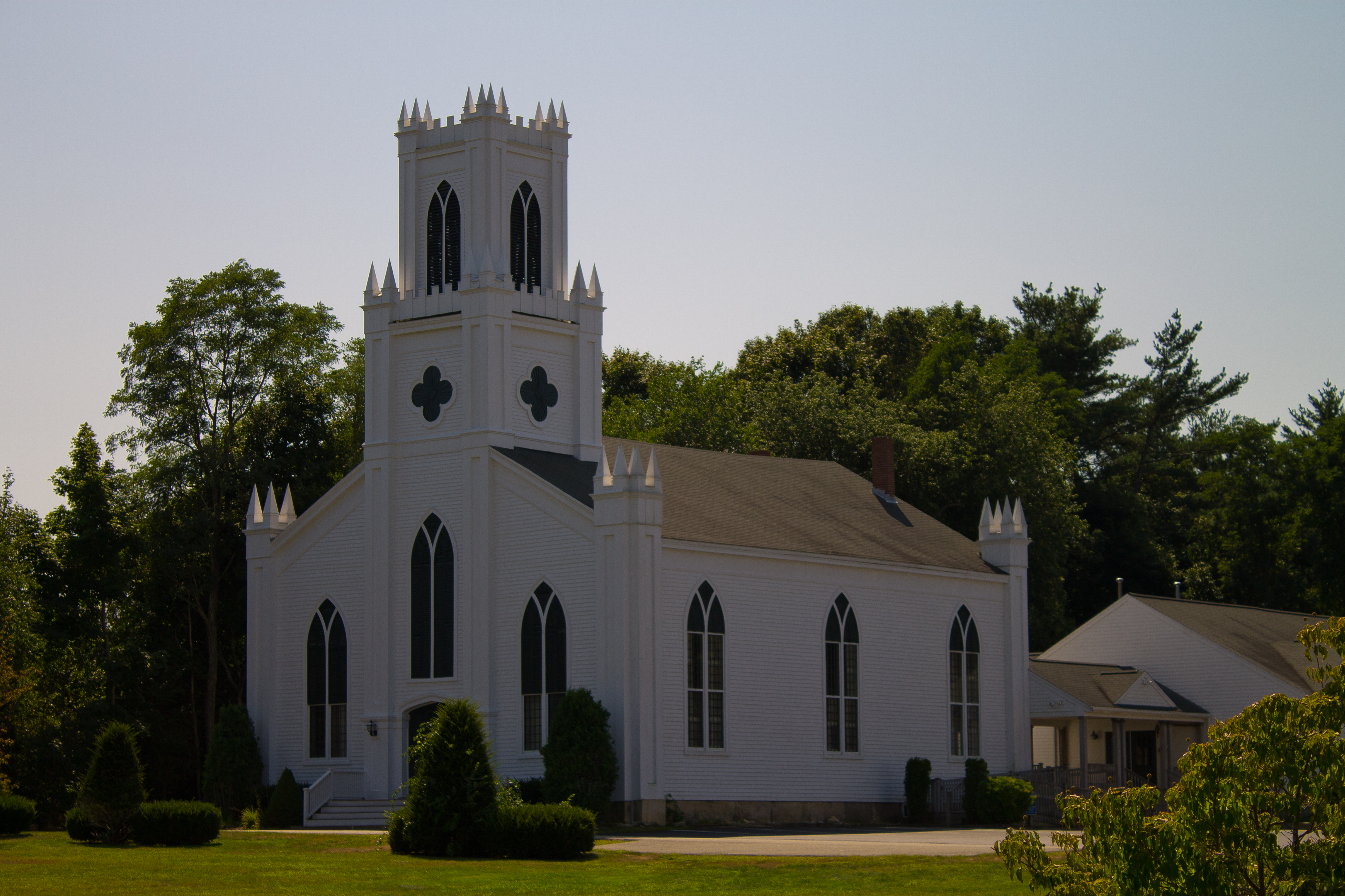 The First Congregational Church, located next to the town hall in Rochester, Massachusetts.